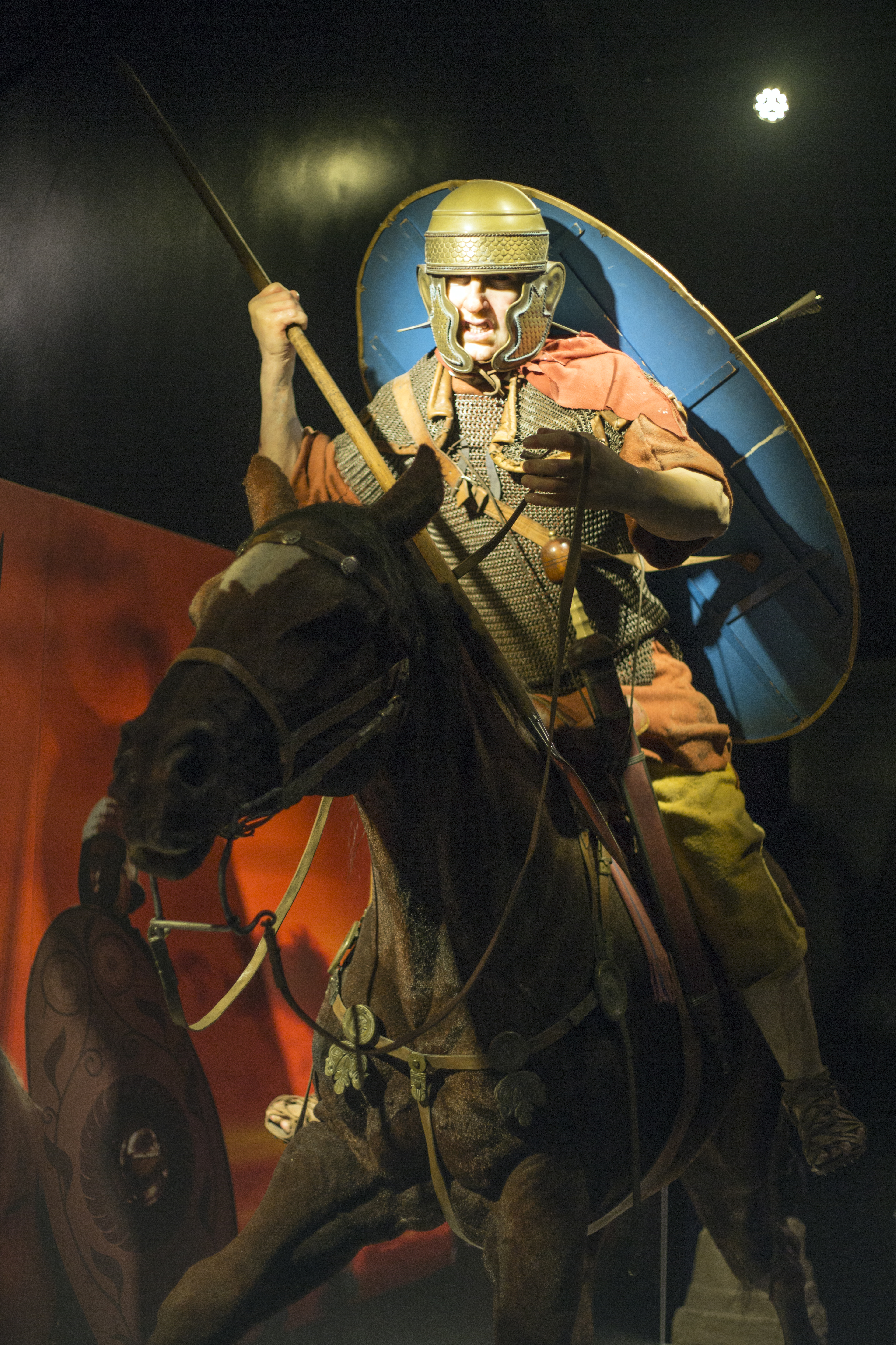 Vindolanda (Chesterholm) Roman forts, civil settlement and cemeteries, adjacent length of the Stanegate Roman road and two miles Wikidata has entry Q17668738 with data related to this item.